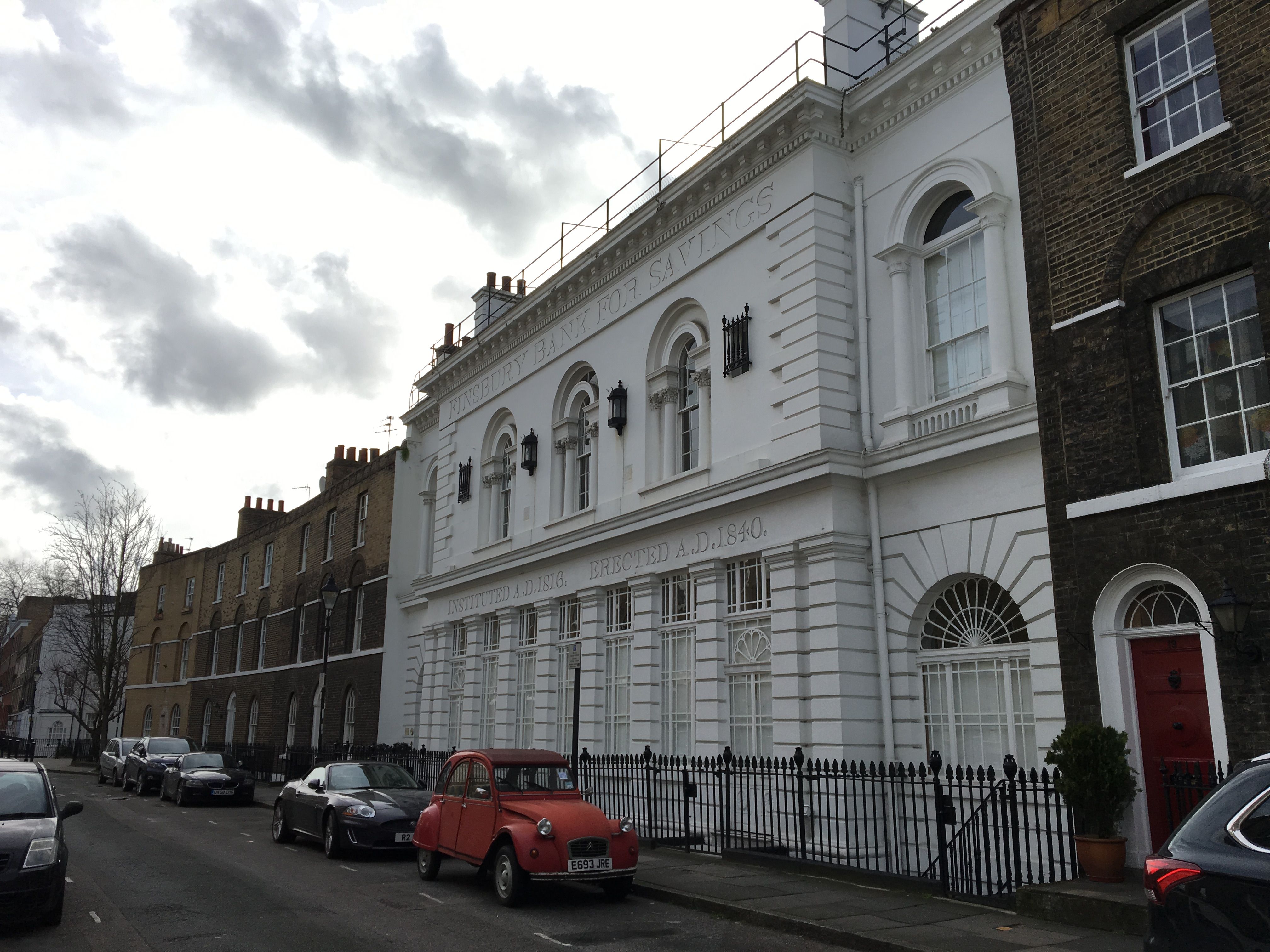 Finsbury Bank for Savings